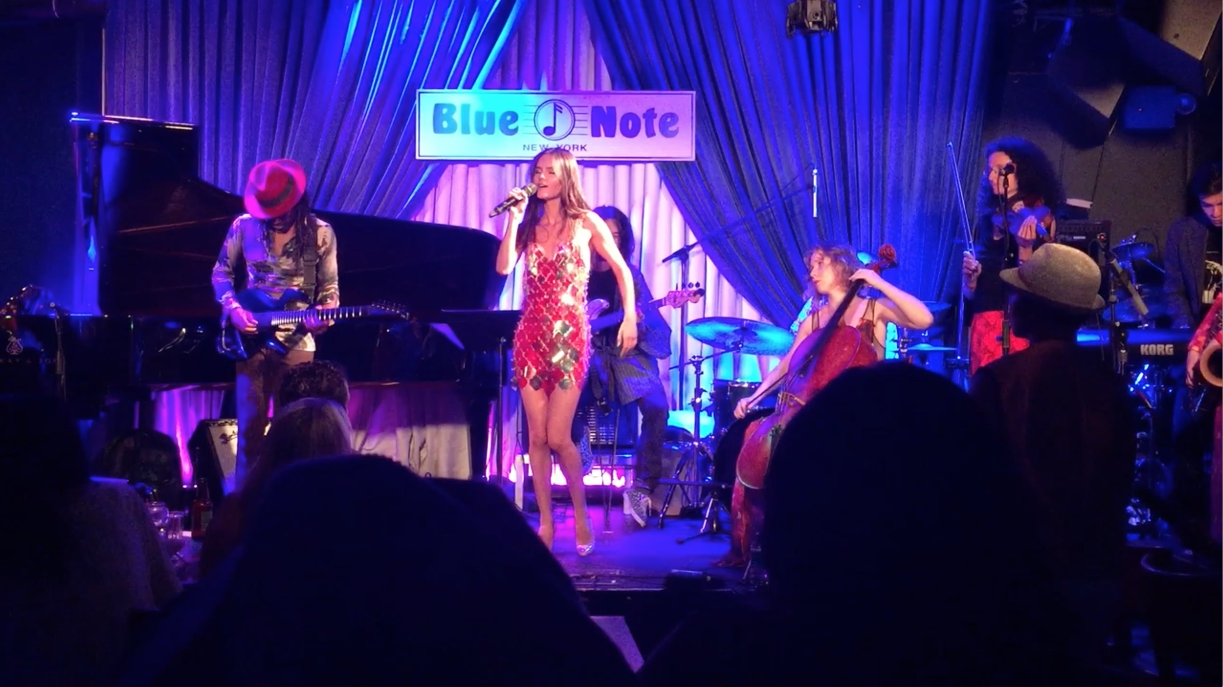 Katya performing at Blue Note cafe